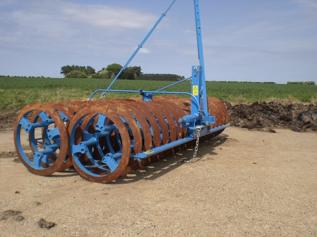 Lemken furrow press/packer (presumably a VarioPack model) near Barwick Hall Farm, near to Stanhoe, Norfolk, Great Britain. An elegant piece of engineering. The rings are not separate rings but interlocking spirals with everything designed to minimize clogging. This packer is attached just behind and to the side of the plough so the earth is turned by the plough in one pass and then broken up and reconsolidated by the furrow press as the plough comes back the other way. In short one powerful tractor now does what needed two tractors before.